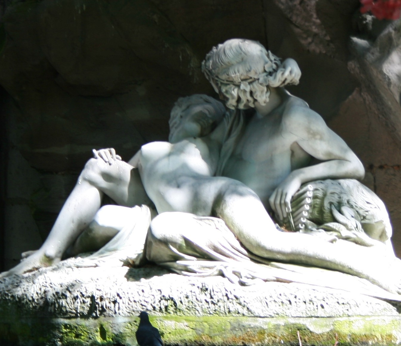 Galatee laying with Acis